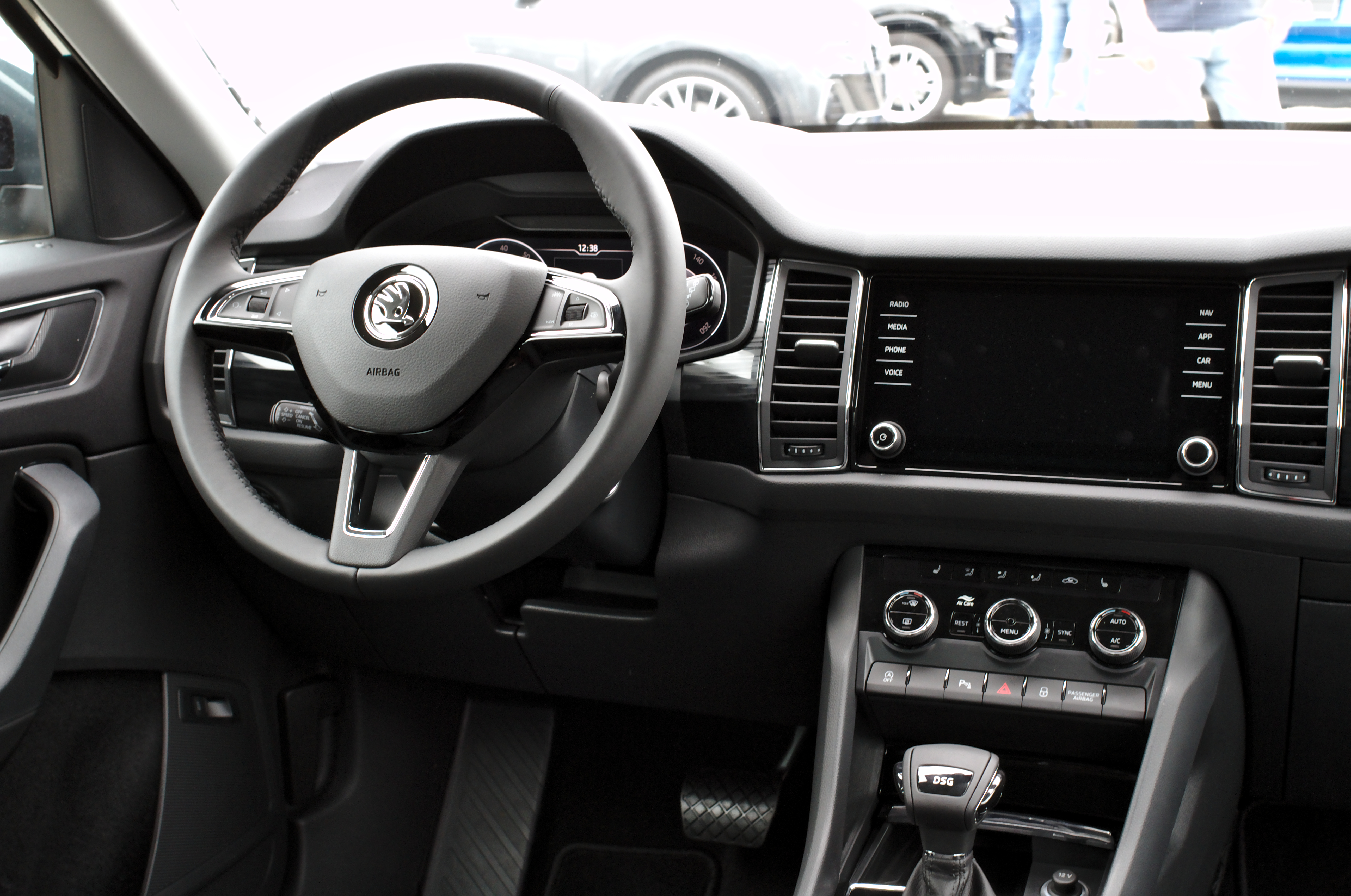 Skoda_Kodiaq at Leonberger Autoschau 2019